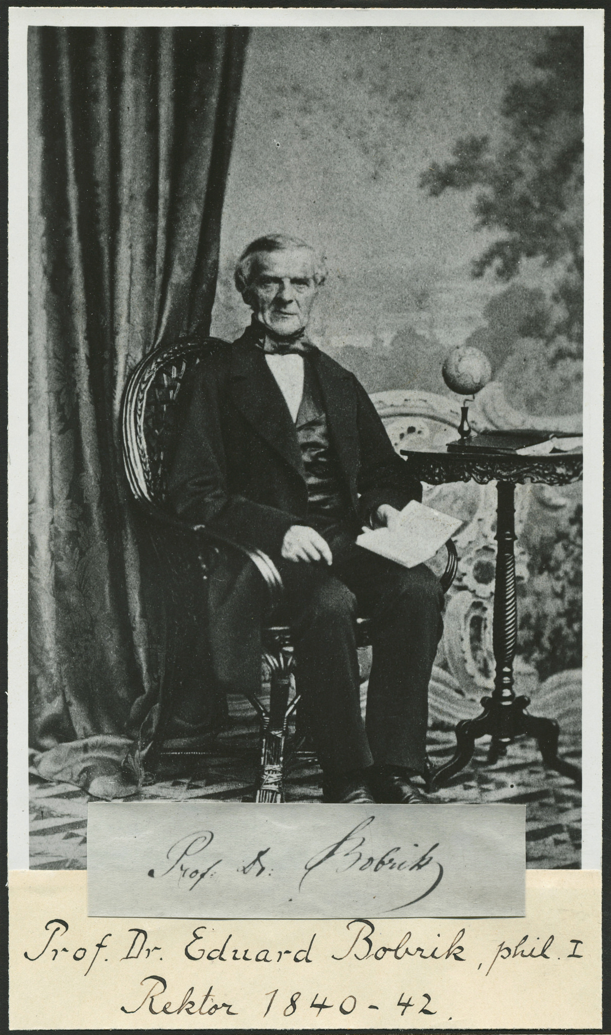 Portrait of Eduard Bobrik